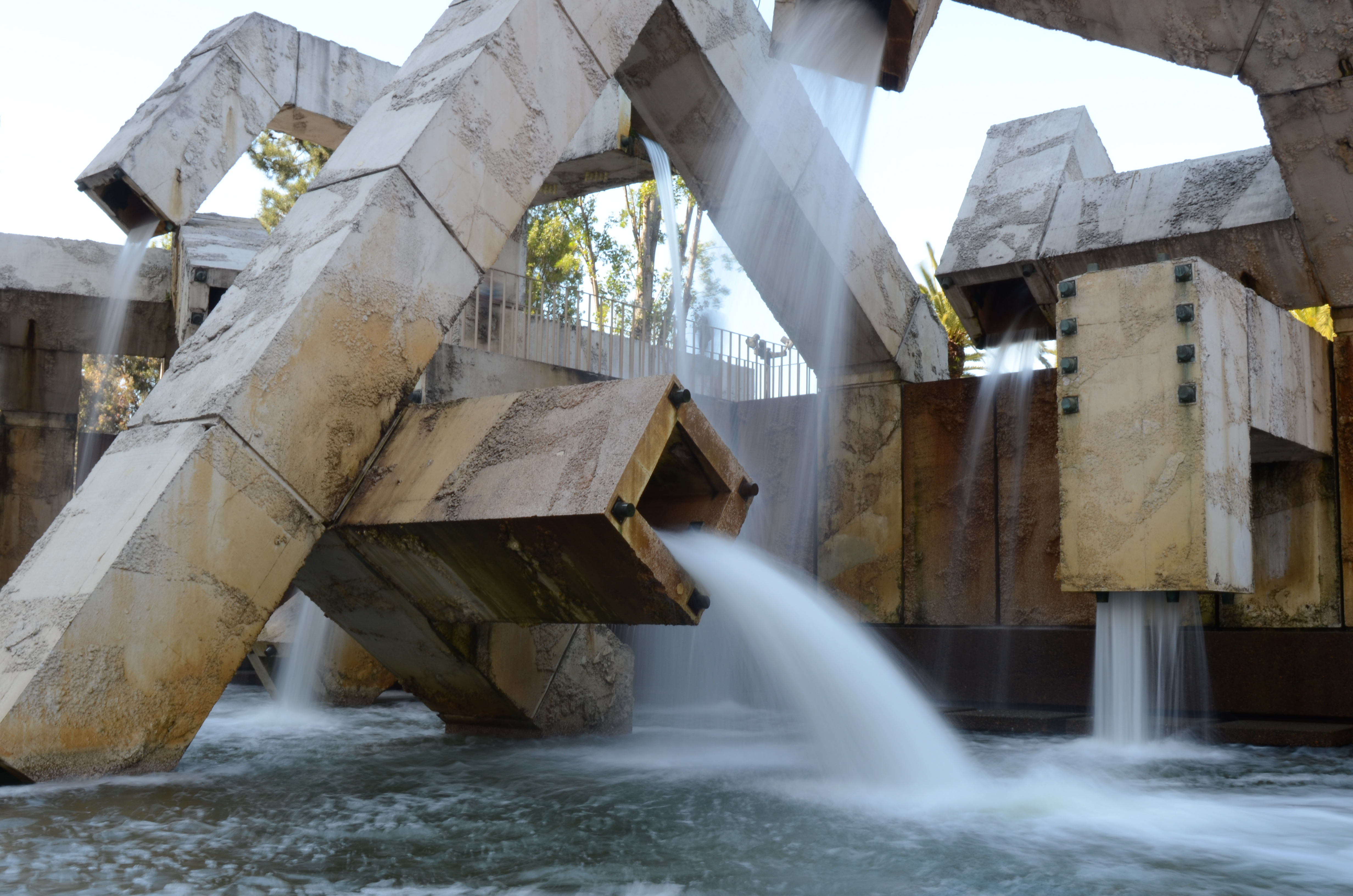 at Justin Herman Plaza in San Francisco